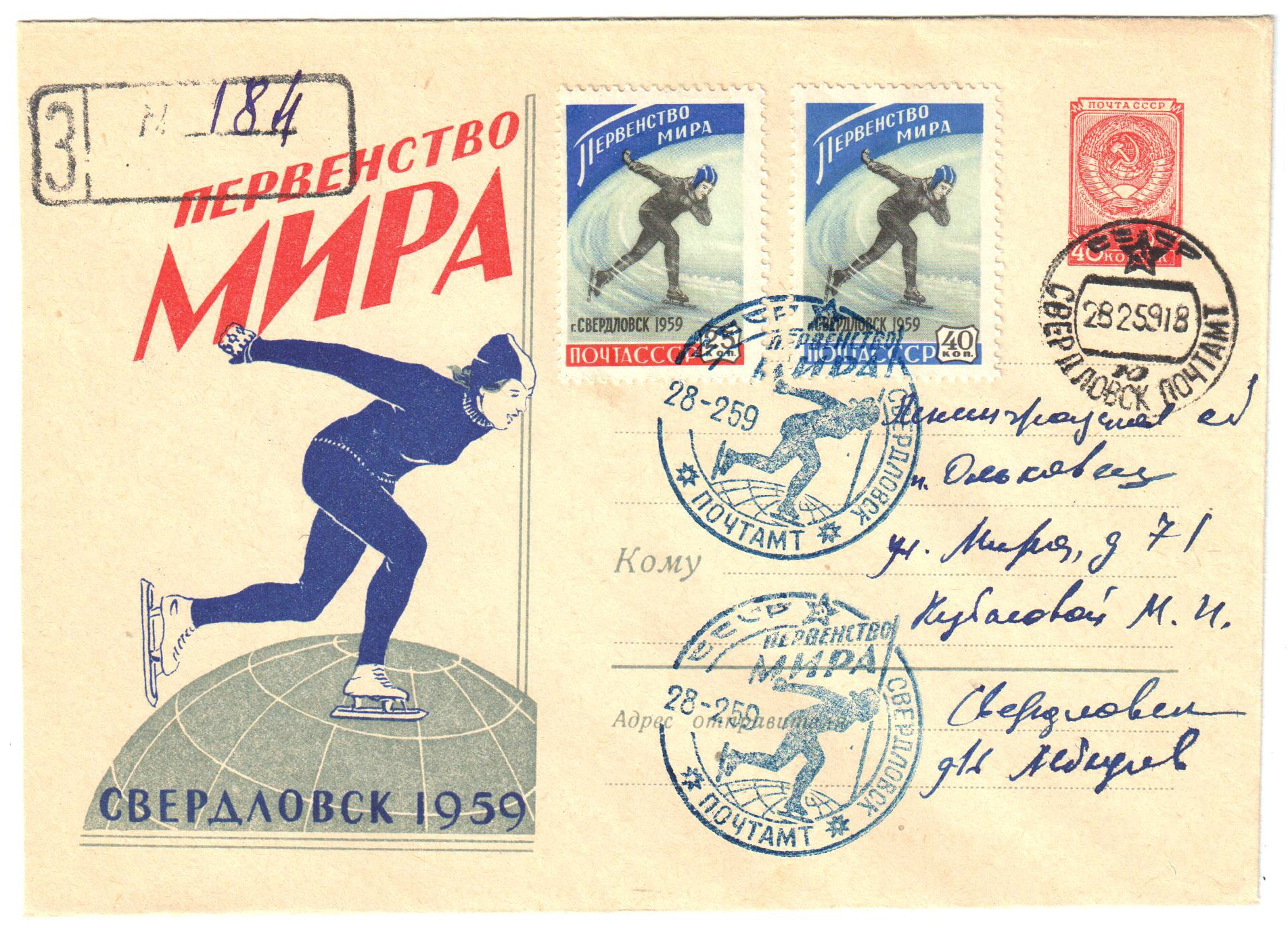 USSR philatelic cover dated 28 February 1959 and being de facto a first day cover. Sent from the General Post Office of Sverdlovsk to the Leningrad Region by registered mail on February 28, 1959, the day of the opening of the World Speed Skating Championship for Women. The pictorial stamped envelope prepared for these competitions is additionally franked by two stamps from the corresponding commemorative issue (CPA 2276, 2277) and has imprints of the calendar and special postmarks.